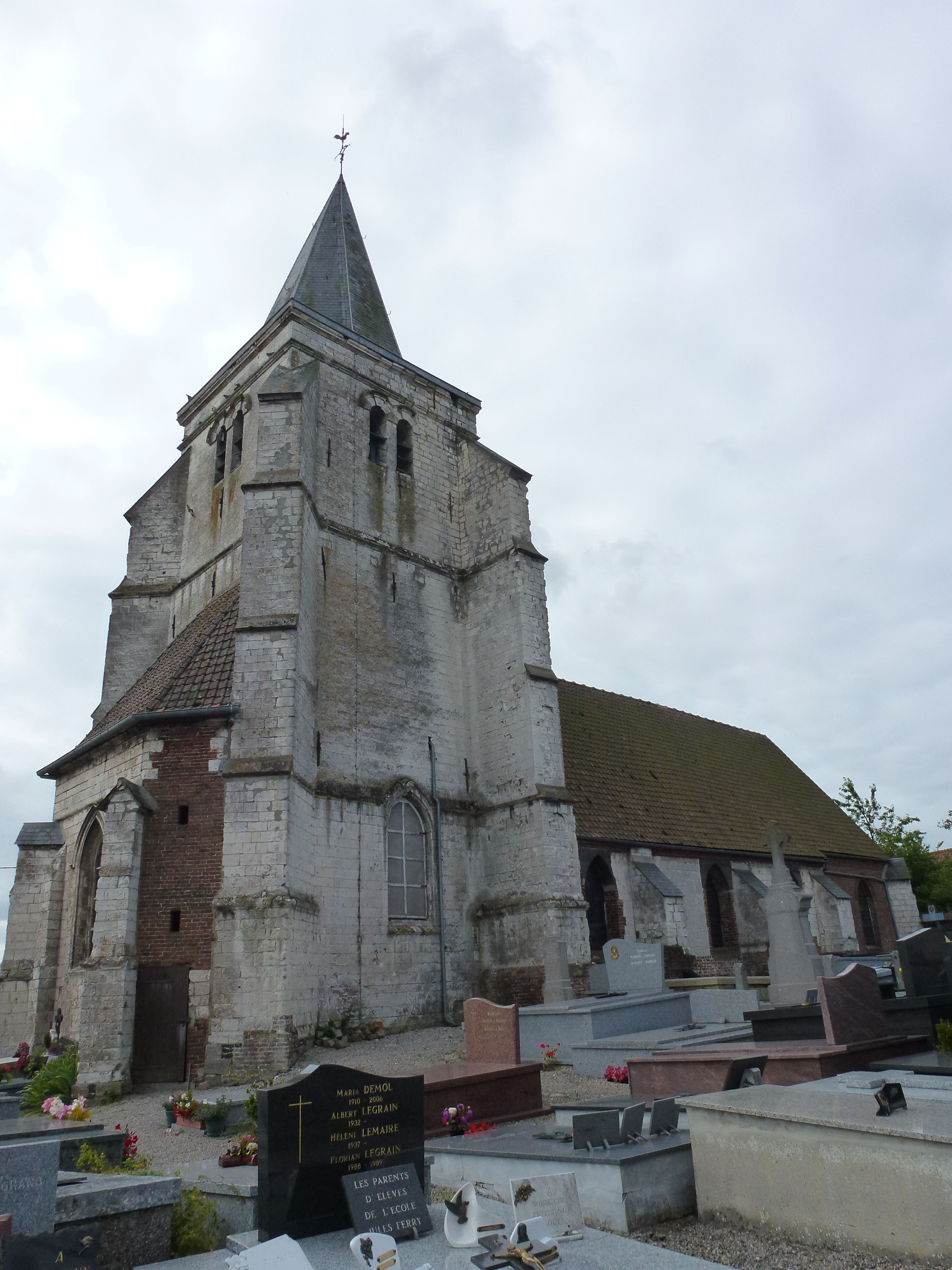 Herbelles (Pas-de-Calais, Fr) église Saint-Léger